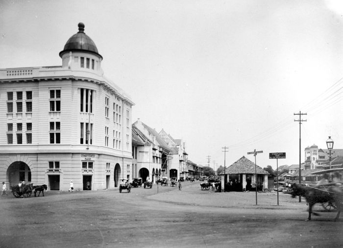 Office of the Chartered Bank at Kali Besar West, Batavia